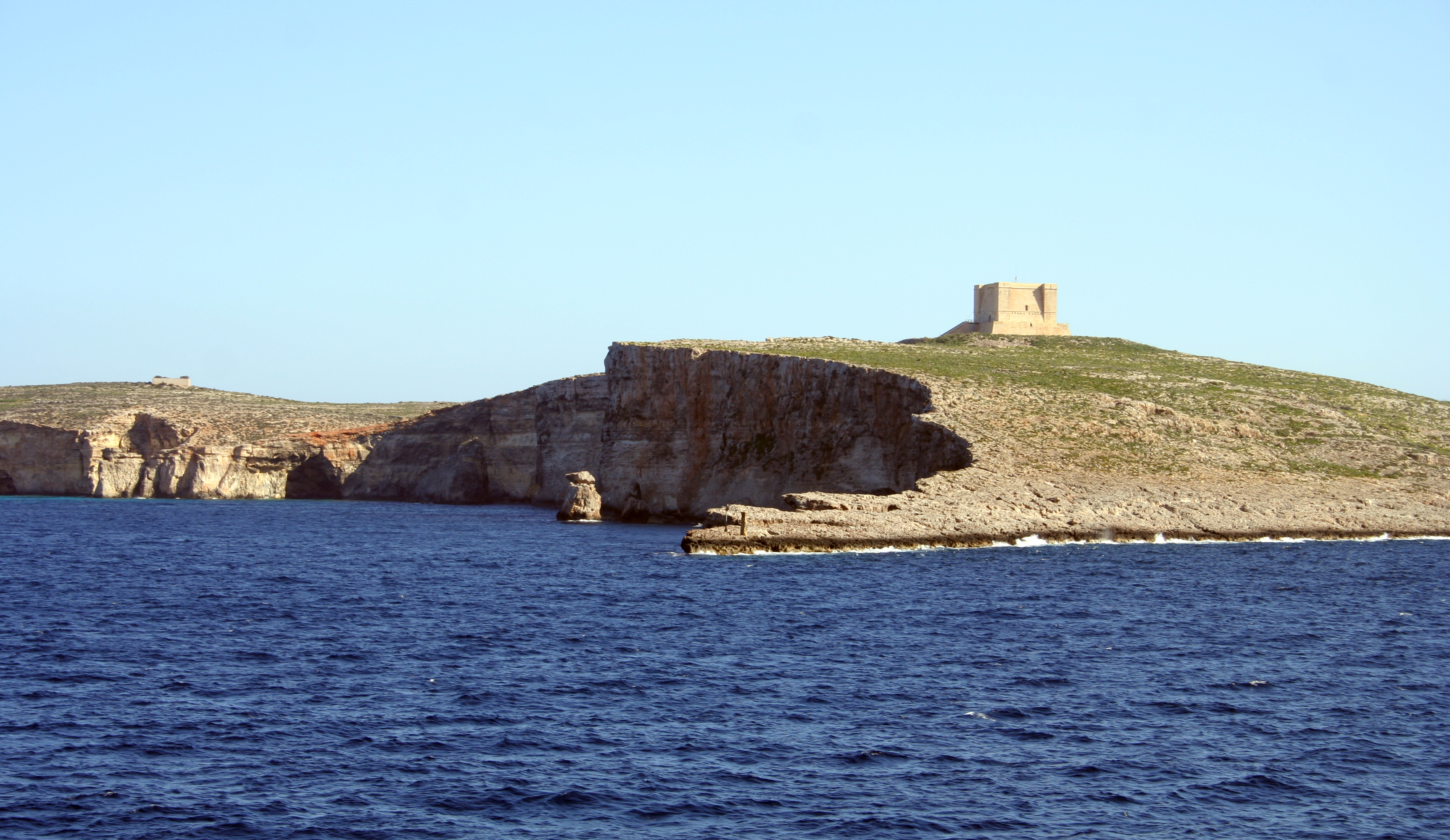 Comino, very small island between Malta and Gozo This media is about Maltese cultural property with inventory number 31.